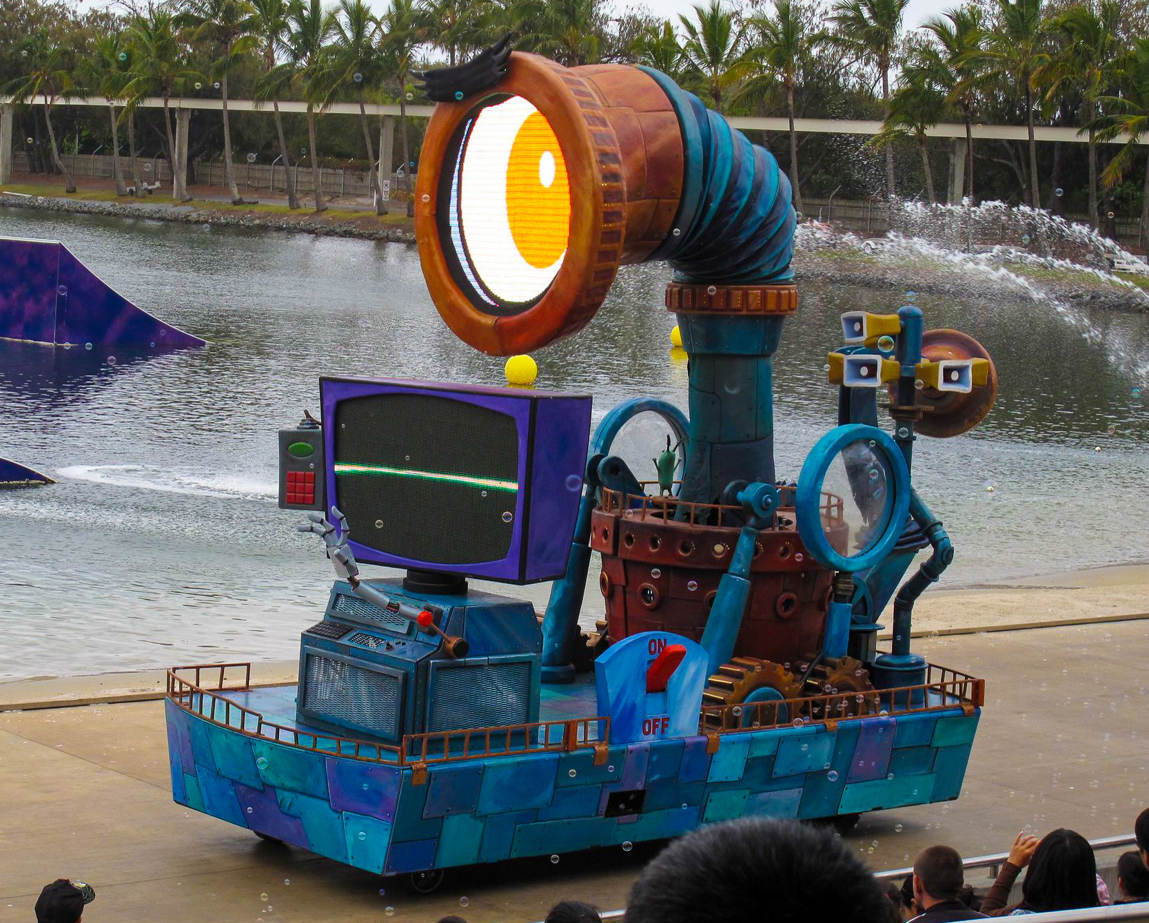 A parade float based on Plankton and Karen from the SpongeBob SquarePants TV series.